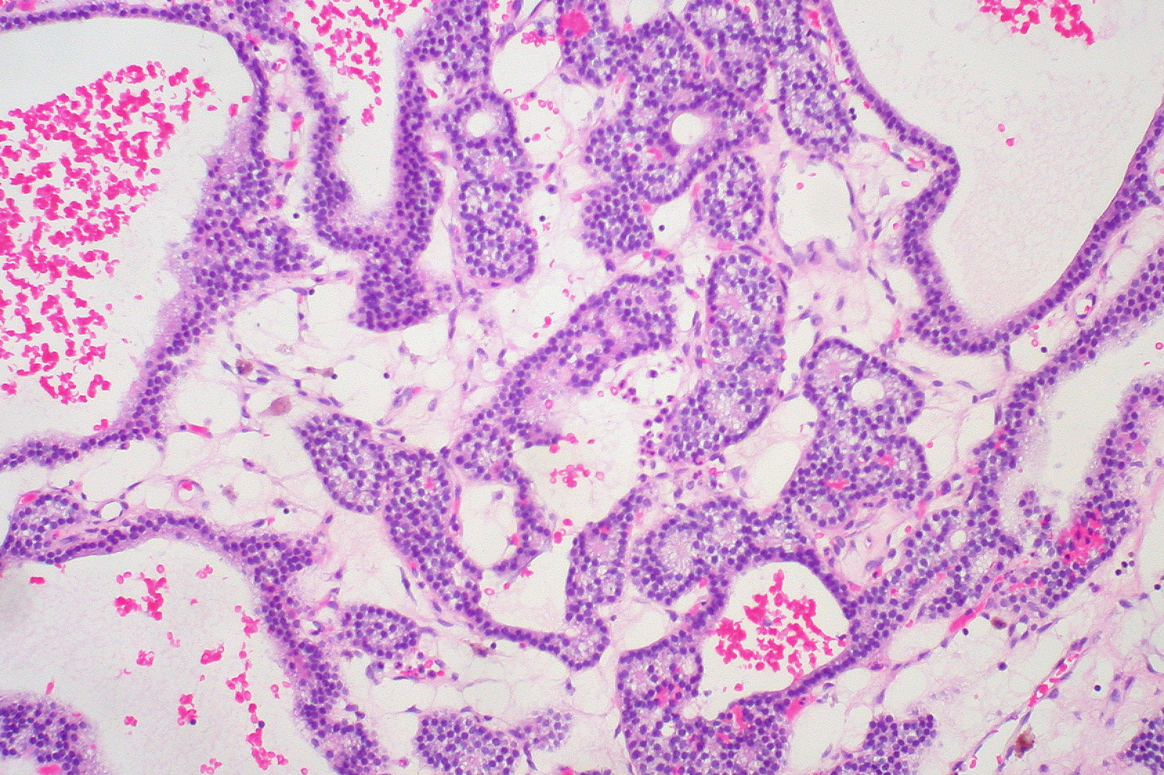 Parathyroid Adenoma 2 Pathological and histological images courtesy of Ed Uthman at flickr.